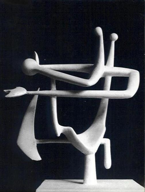 "Dance", sculpture of the Portuguese artist Manuel Pereira da Silva.